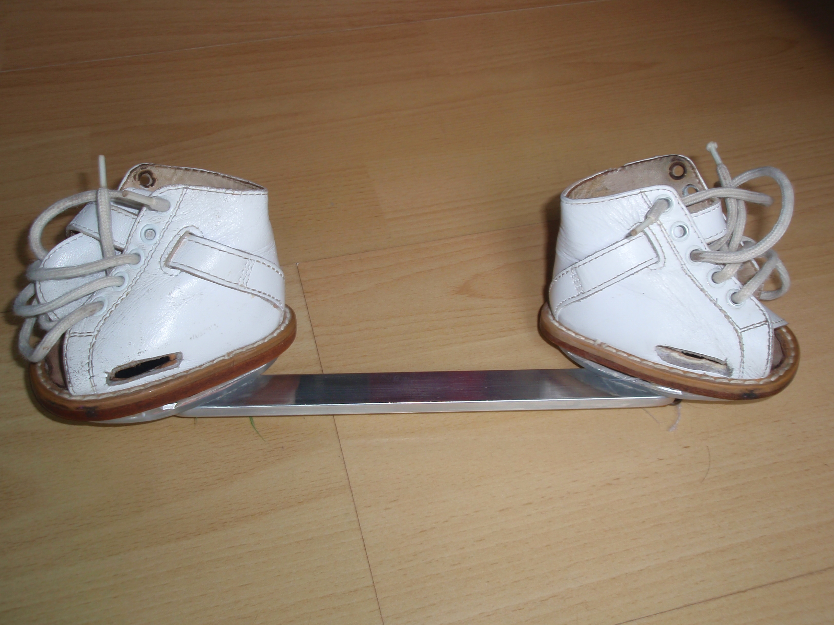 Shoes mounted on a brace to treat clubfoot. This foot abduction brace is called a 'Denis Browne Bar’ or ‘Denis Browne Splint’ after its inventor, the pediatric surgeon Denis Browne of the UK.